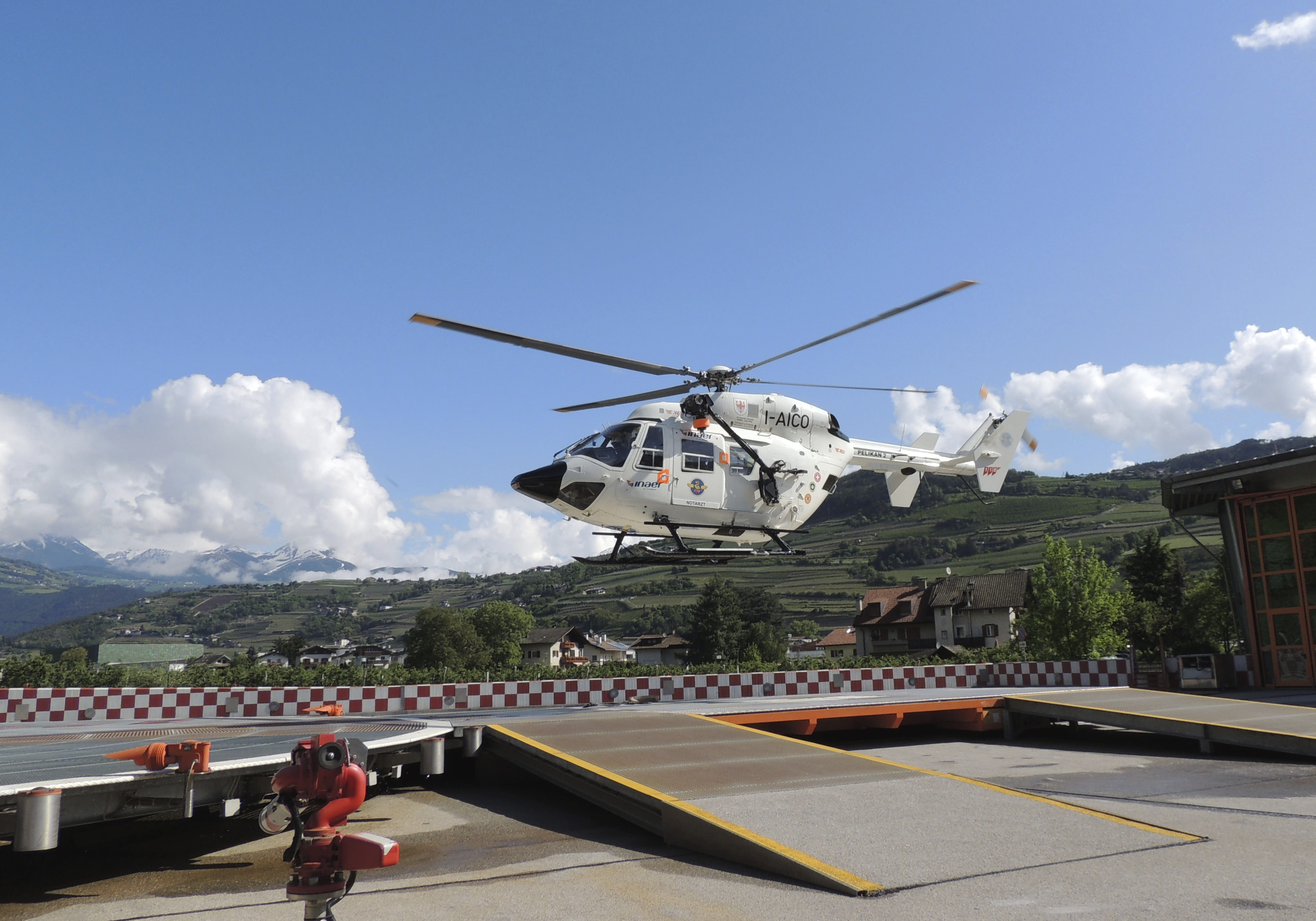 Helicopter I-AICO